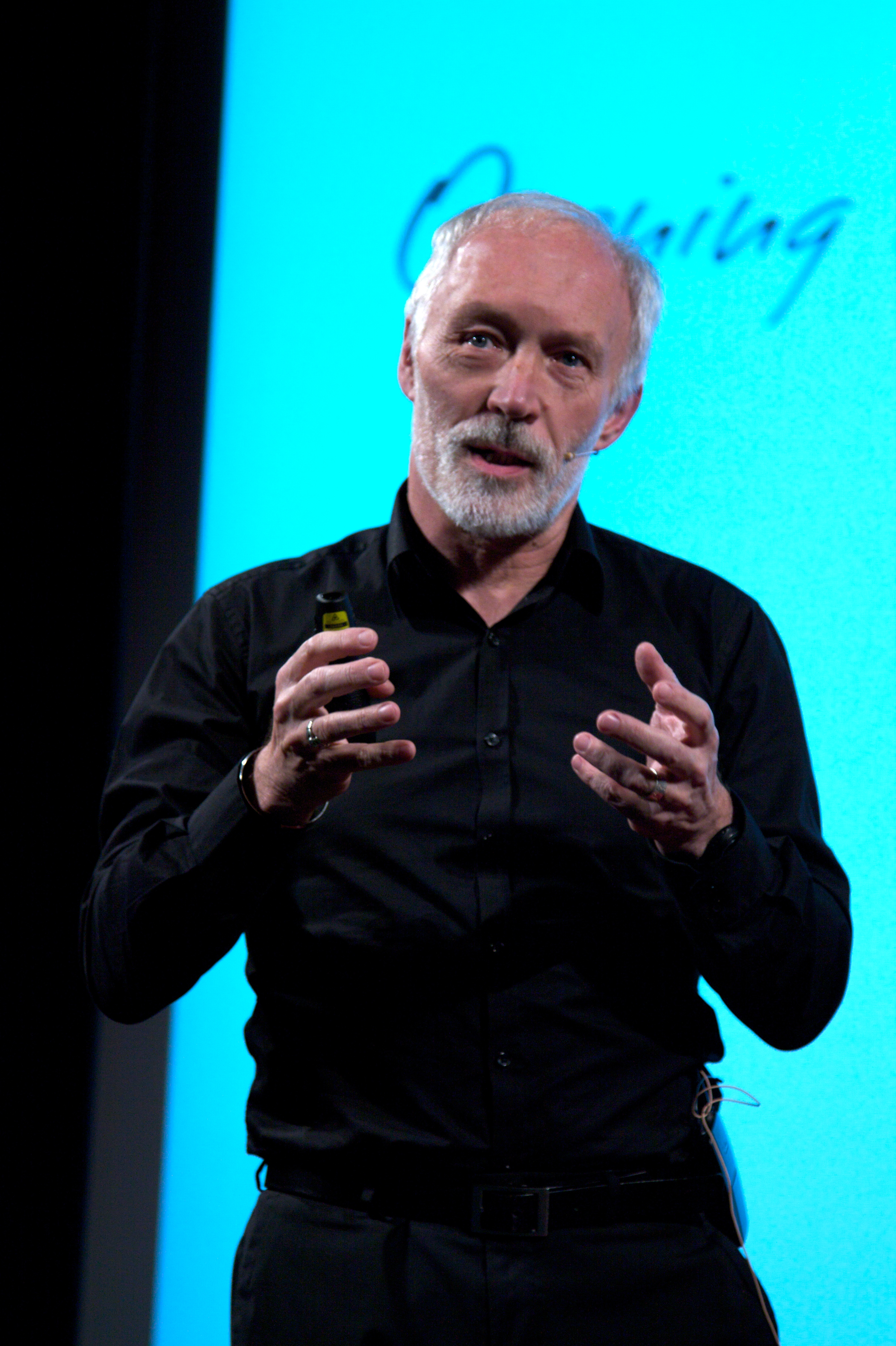 Patrick McGorry, at TEDx Canberra 2010